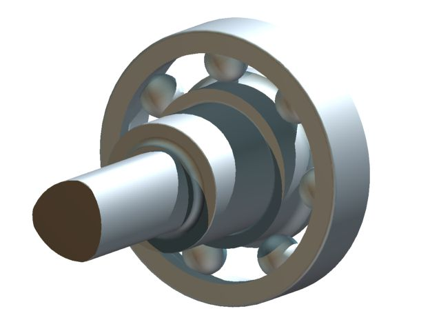 polygon connection P3G